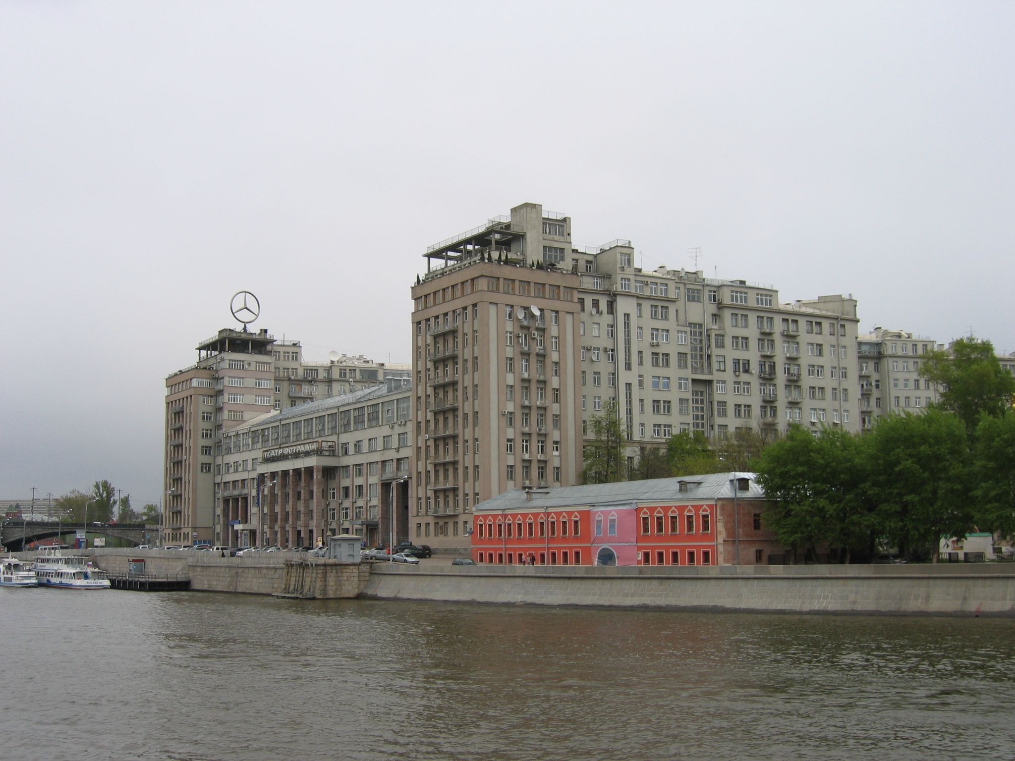 House on Embankment in Moscow